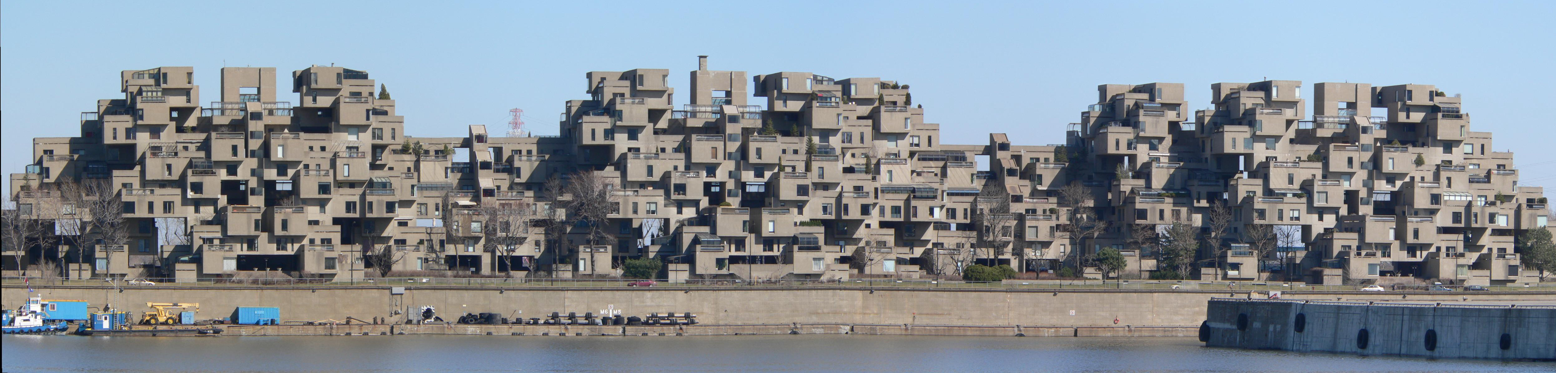 High-res image of the Habitat 67 complex taken in April of 2006. Photo: Nora Vass, Stitch: Gergely Vass